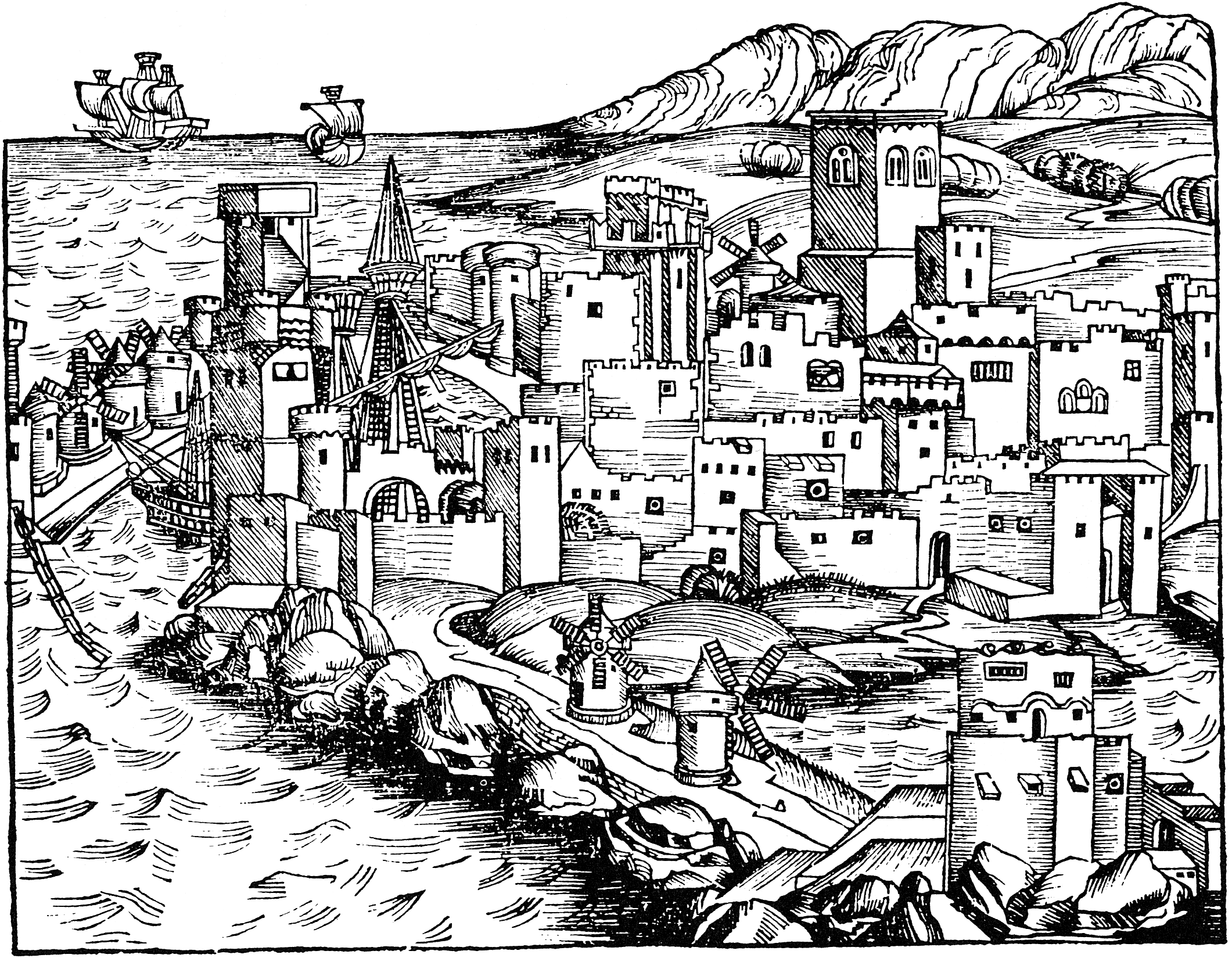 View of Rhodes (i. e. Rhodos, Rhodus), capital of the Greek island of the same name, around 1490. The realistic details are noteworthy; e.g. the windmills around the town, esp. at the seaside.